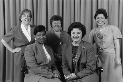 Top Row (L-R): Sen. Patty Murray (D-WA), Sen. Barbara Mikulski (D-MD), Sen. Barbara Boxer (D-CA) Bottom Row: Sen. Carol Moseley-Braun (D-IL), Sen. Diane Feinstein (D-CA)